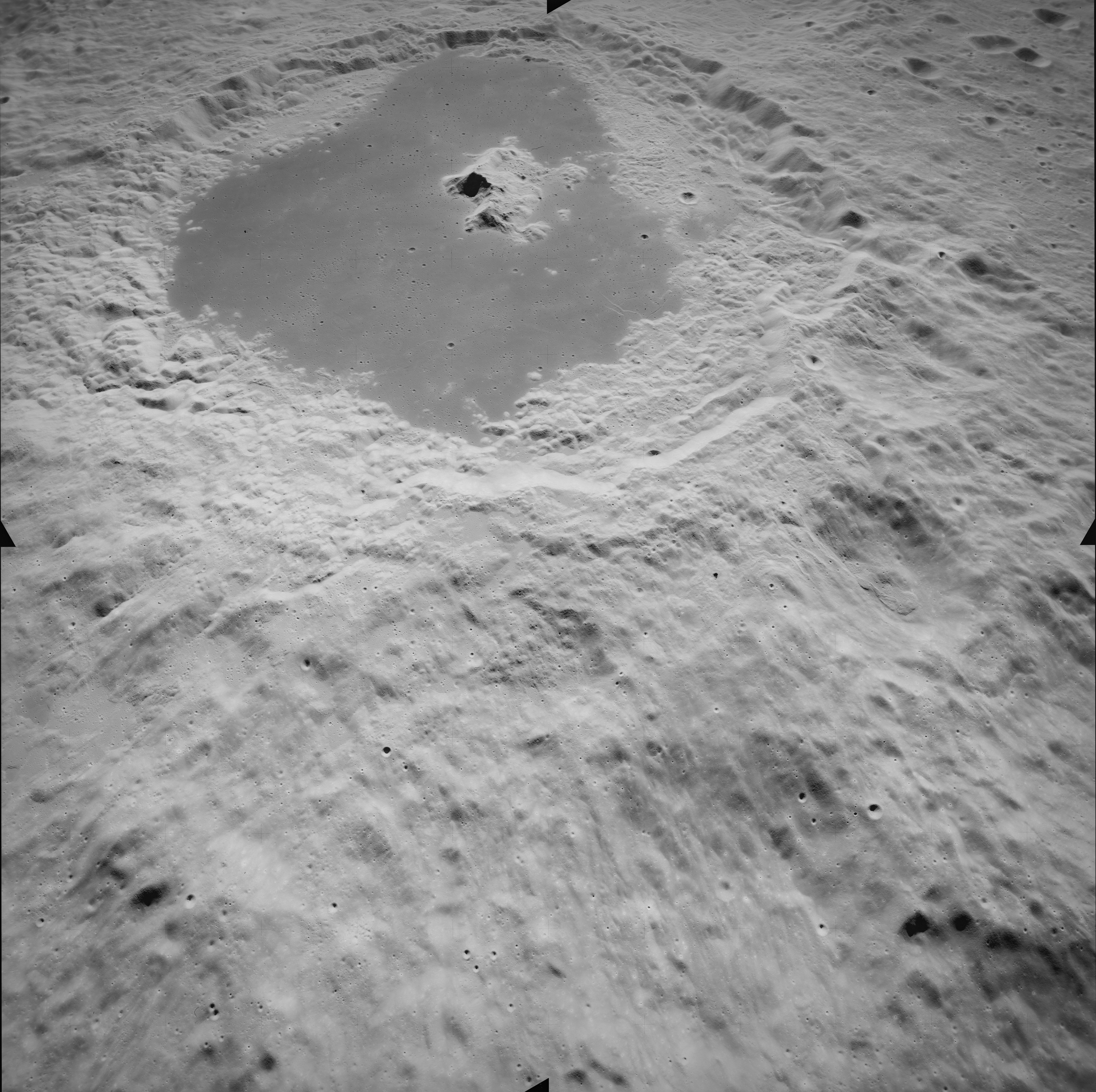 Tsiolkovsky Crater taken by the Mapping Camera. West is to the top. Кратер Циолковский, снятый А. Уорденом на картографирующую камеру.